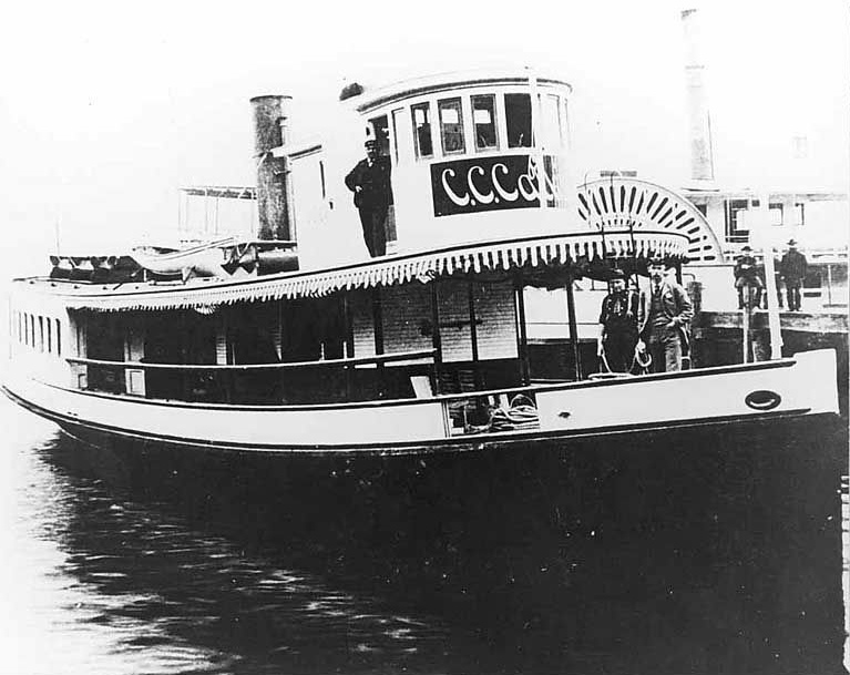 The steamboat C.C. Calkins, a steamboat on Lake Washington. The steamer just visible to the rear is probably the sidewheeler Kirkland.